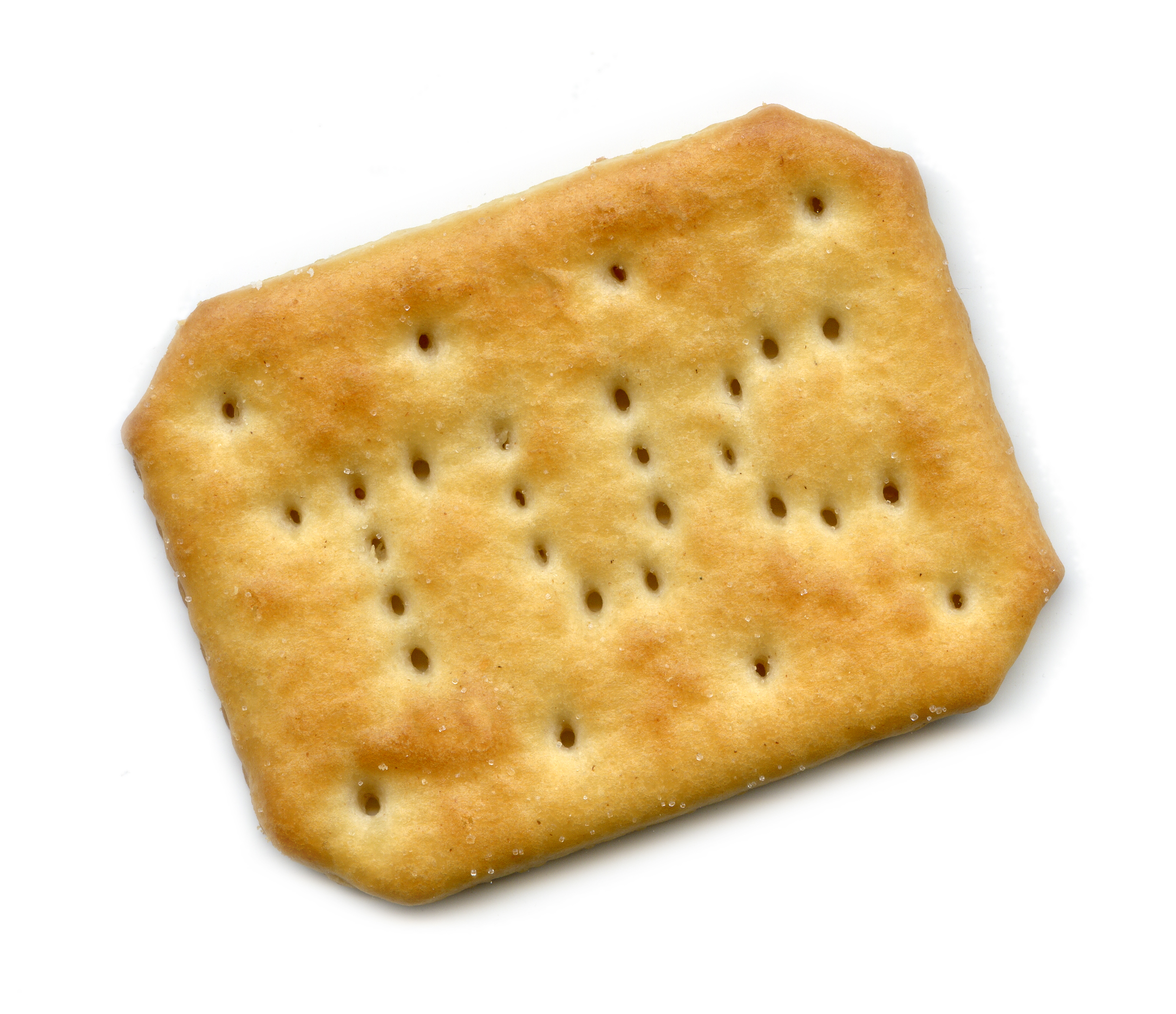 A cracker